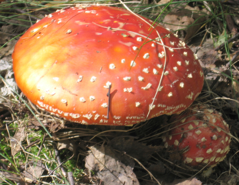 Amanita muscaria Photo taken August 28th, 2005, near Zielona Gora, western Poland